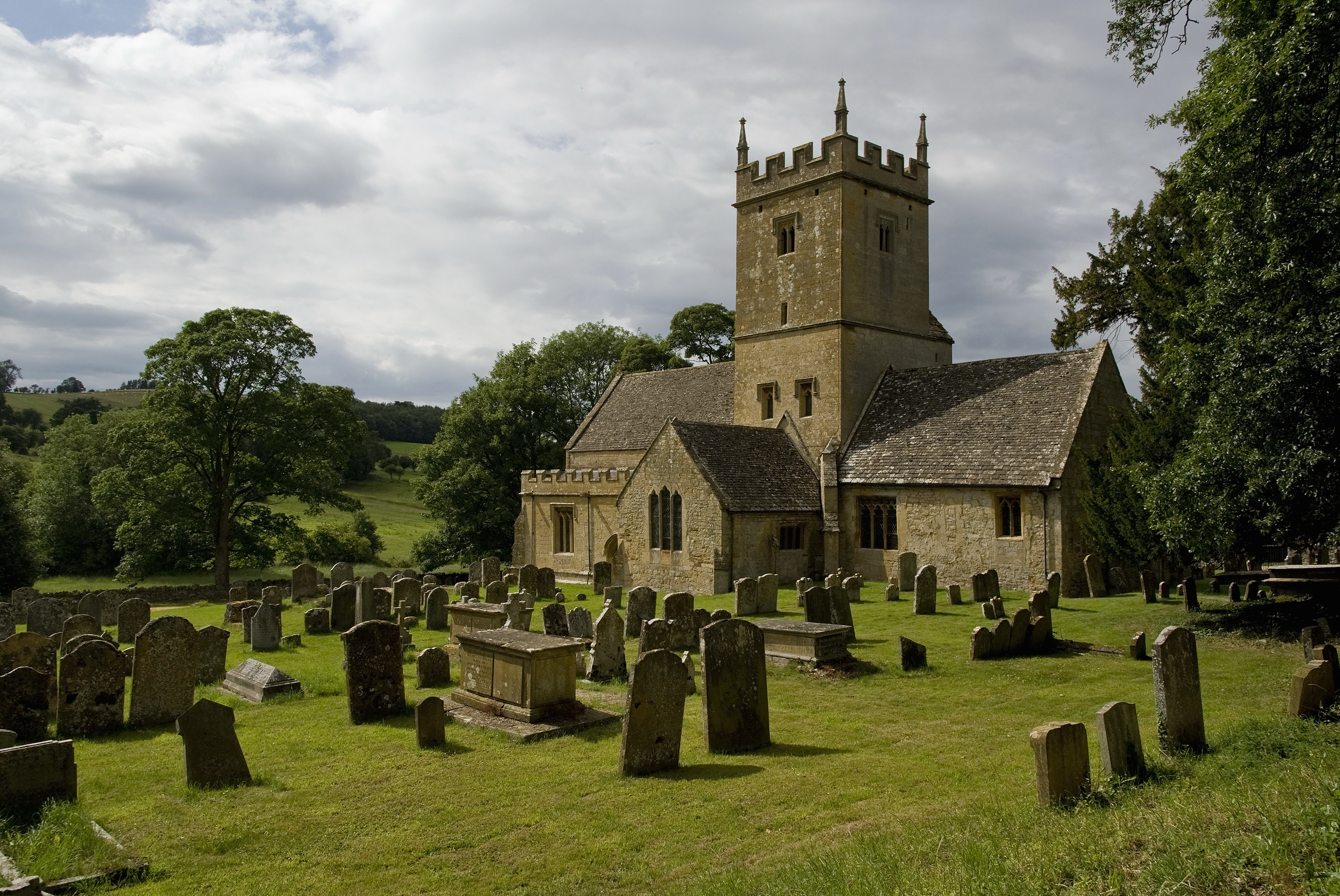 The original parish church of Broadway, the Church of St Eadburgha has been a Christian place of worship since the 12th century. The current church was built circa 1400 but there are elements that remain of the original 12th century building. The dedication of a Christian church to Eadburgha is not common. Eadburgha was the grand-daughter of Alfred the Great. As a child Eadburgha was asked to choose between receiving jewels or her own Bible, she chose the Bible. English Heritage Listed as Grade I English Heritage Building ID: 400976 OS Grid Reference: SP0970536258